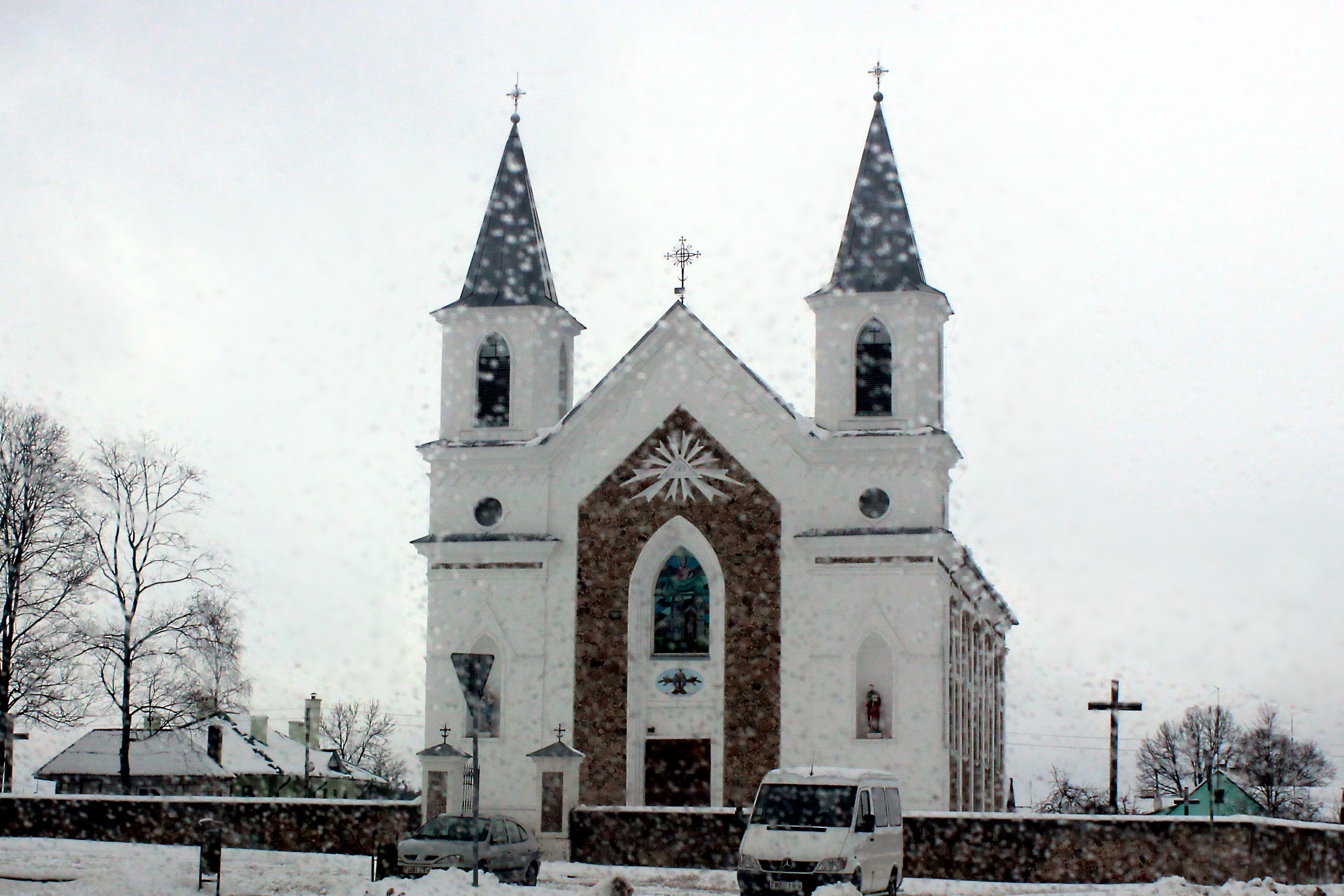 Church St.Peter and St.Paul in Gogha, Grodno region